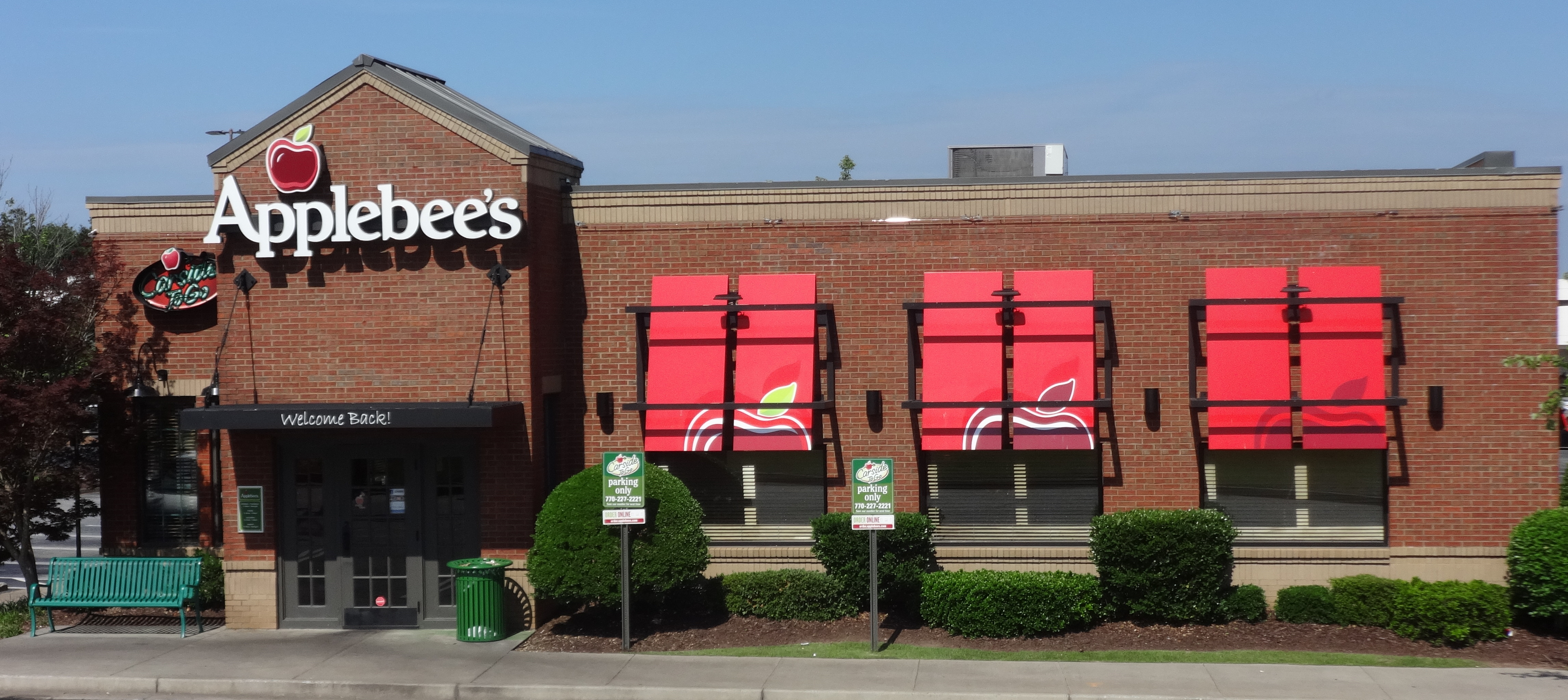 Applebee's, 1647 N Expy, Griffin, Spalding County, Georgia